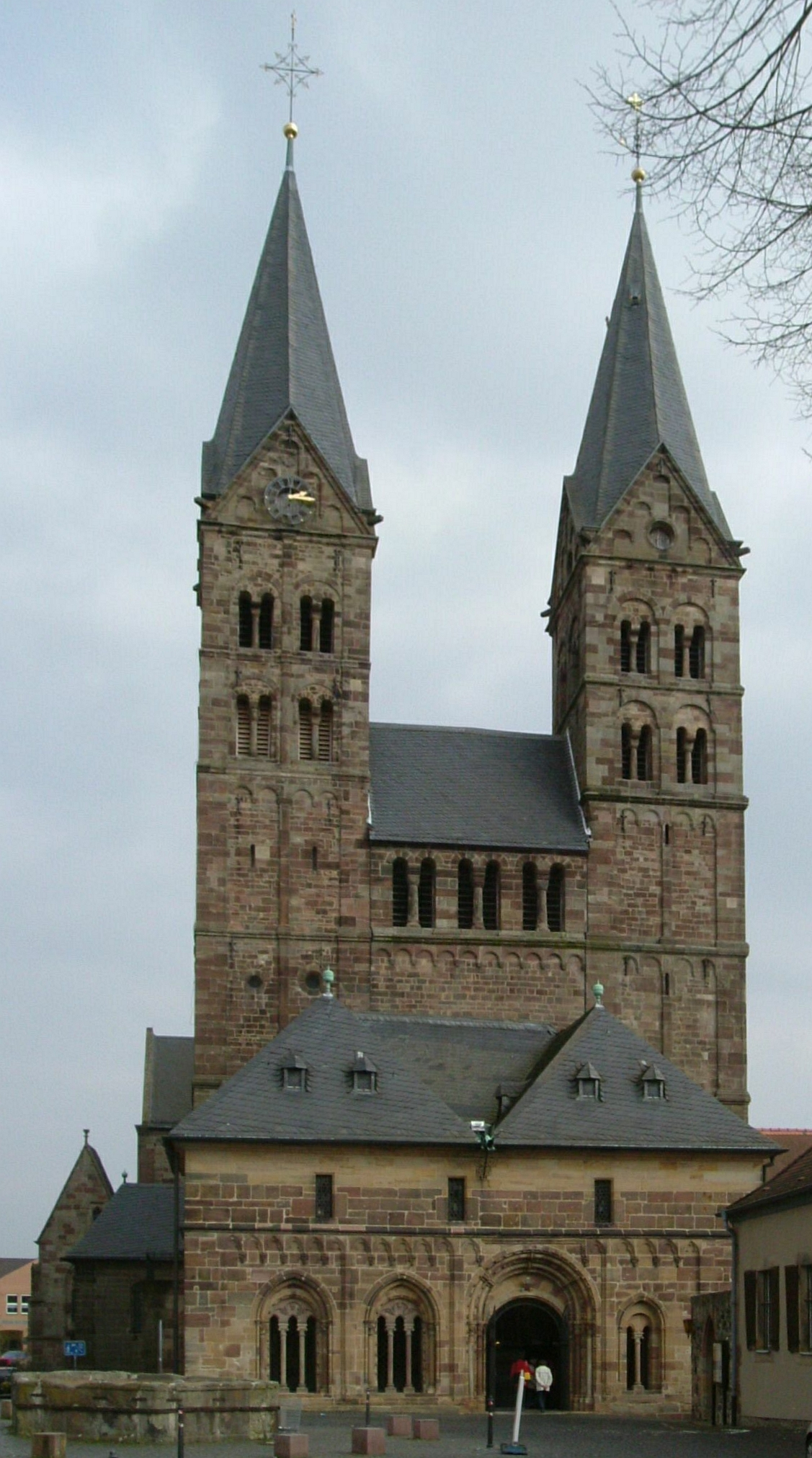 Fritzlar, Germany. St.Petri Chatedral Author: Peter Kaboldy, 03. 2007.